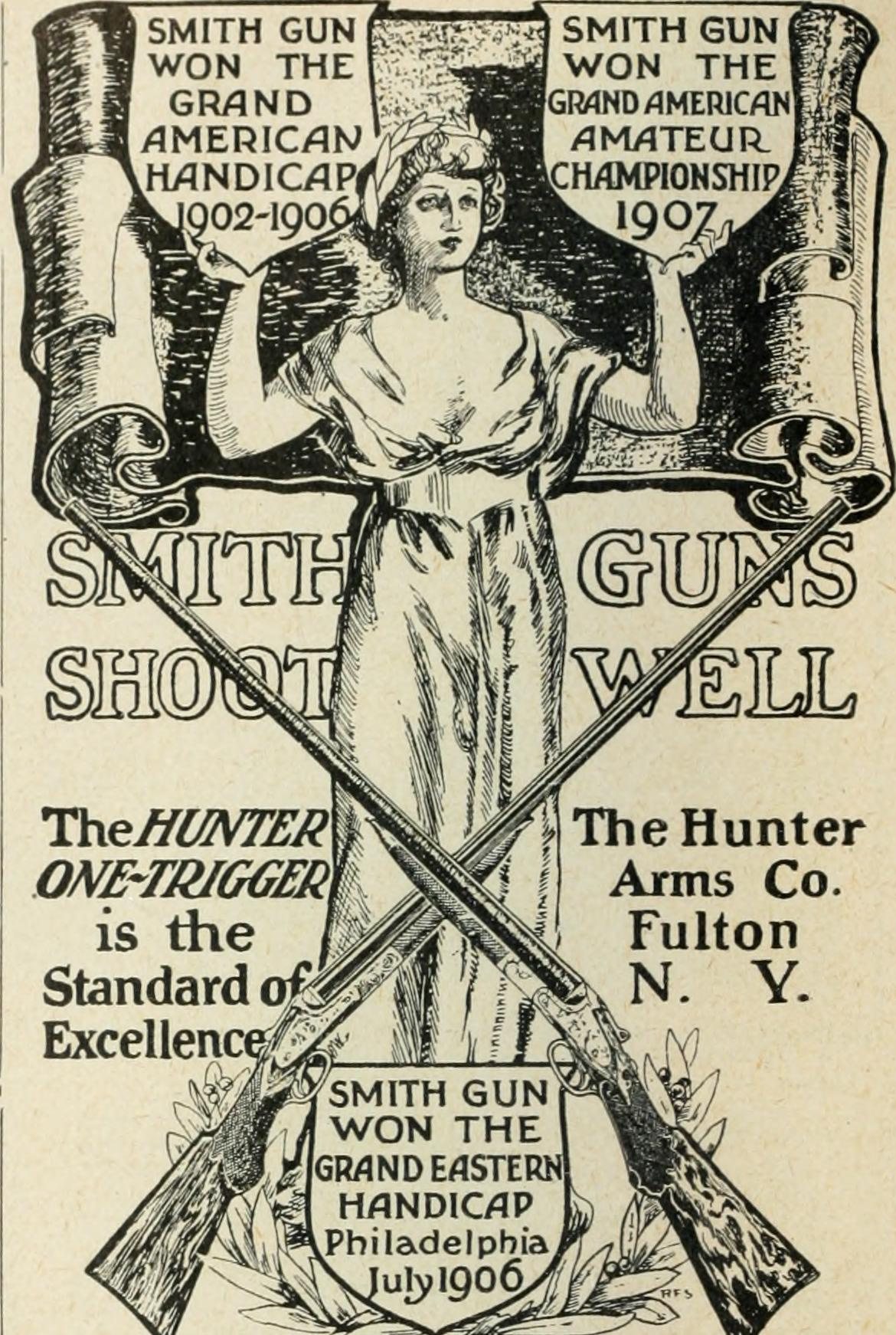 SMITH GUNS SHOOT WELL. The Hunter Arms Co., Fulton, N. Y. Title: Rod and gun Year: 1898 (1890s) Authors: Canadian Forestry Association Subjects: Fishing Hunting Outdoor life Publisher: Beaconsfield, Que. (etc.) Rod and Gun Pub. Co. (etc.) Text Appearing Before Image: FOR FIFTY SUBSCRIBERS we will send A PRIZE COLLIE DOG From the celebrated KING LDWARD COLLIE KENNELS New Toronto A Collie Dog from these Kennels isa prize worth working hard for A PAIR OK LYMANS BOW FACING ROWING GEAR AND OARS will be given free to anyone sending 11 subscriptionsto Rod and Gun and Motor Spdrts in Canada For full particulars wnte to theLYMAN GUN SIGHT CORPORATIONMiddlefield, Conn., mentioning having seen theadvertisemi-nt in this magazine Text Appearing After Image: Sencf Jar oi/rcy^rf Cota/oguejrWCoIors The Next Time Your GunRequires Doctoring THINK OF ALEX. JOHNSTON 494 Eastern Ave, TORONTO, ONT. Who hsis every facility for choke boring,restocking, browing and repairing guns.You can make no mistake in bringing orsending your gun to him.